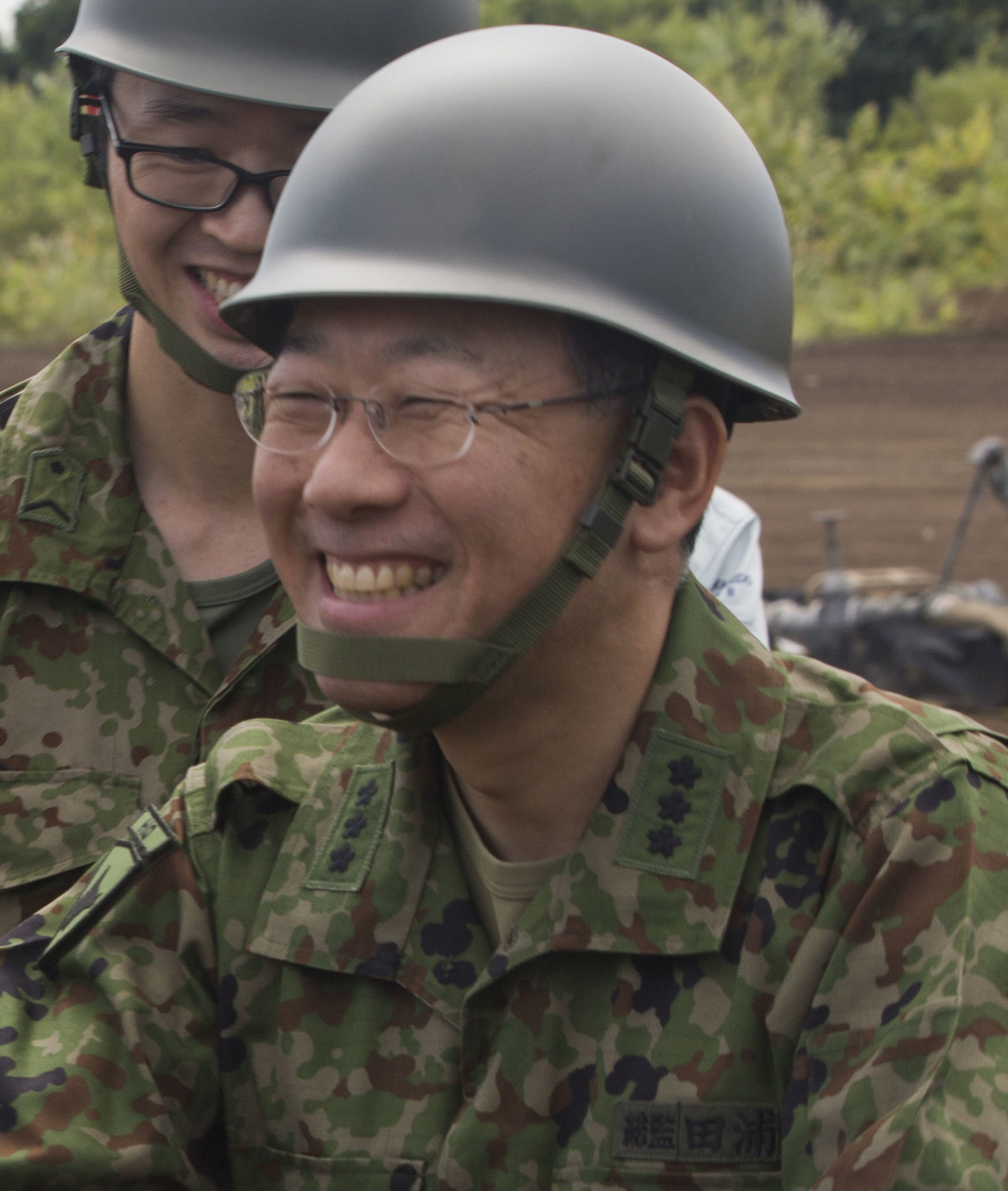 Lieutenant General Masato Taura, commanding general of the Northern Army, Japan Ground Self-Defense Force.